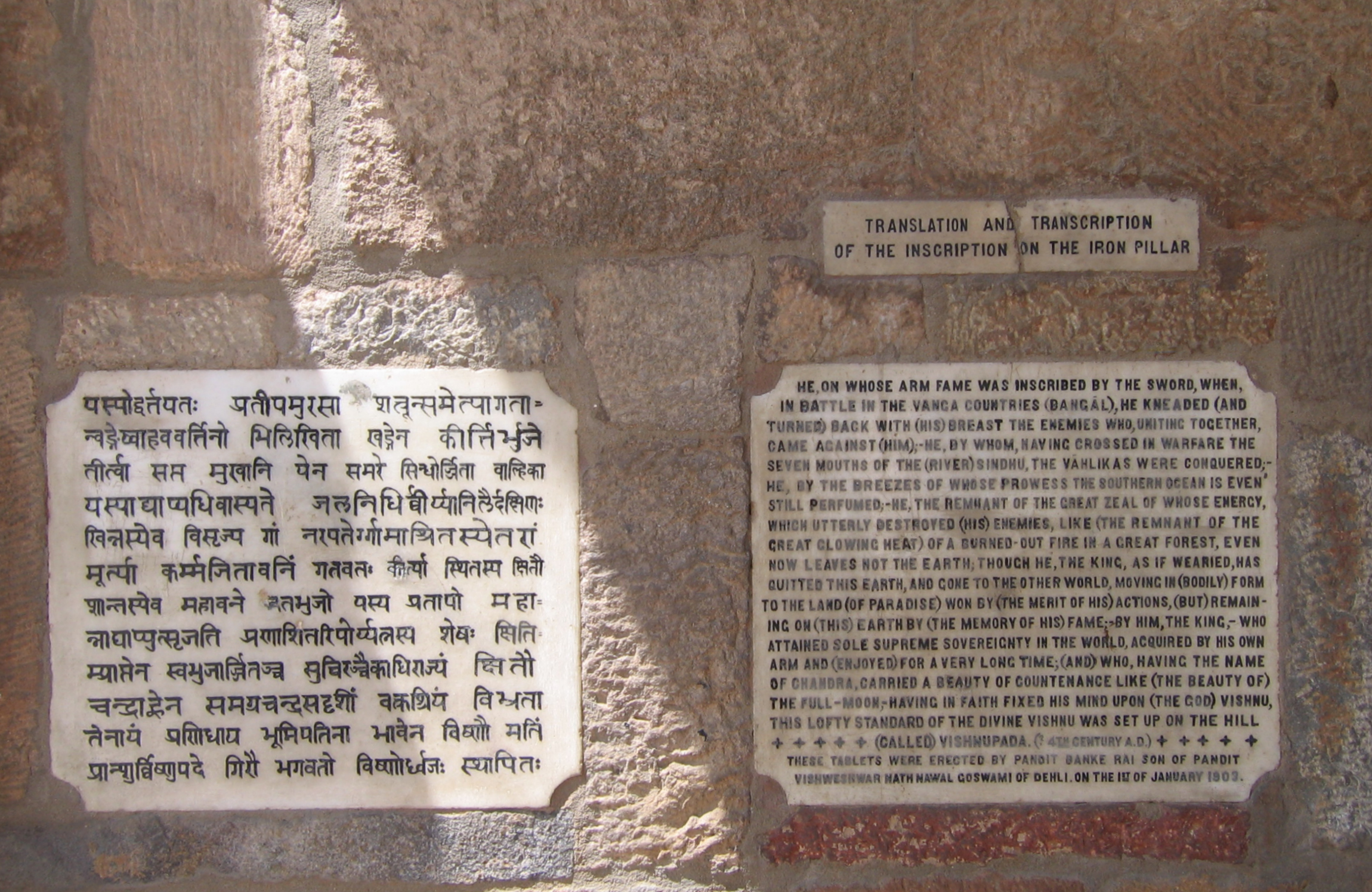 The iron pillar of Delhi